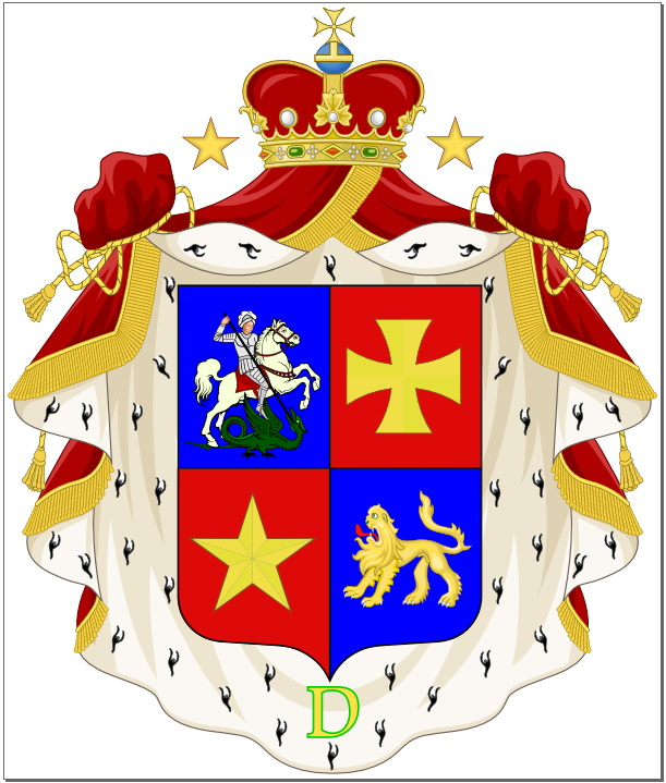 Coat of arms of the Bagration-Davidov family.